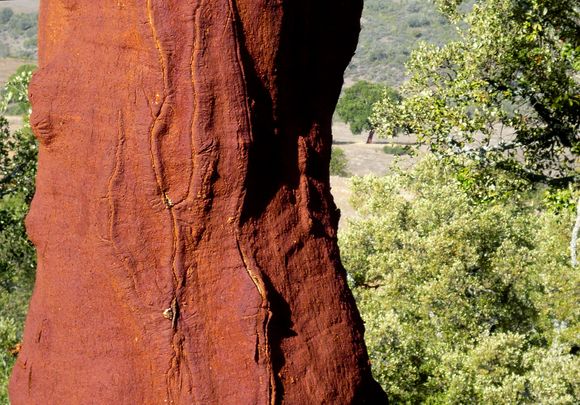 Detail of the bark of an cork oak, after the harvest of the cork. . Helechosa de los Montes, Badajoz, Extremadura, Spain